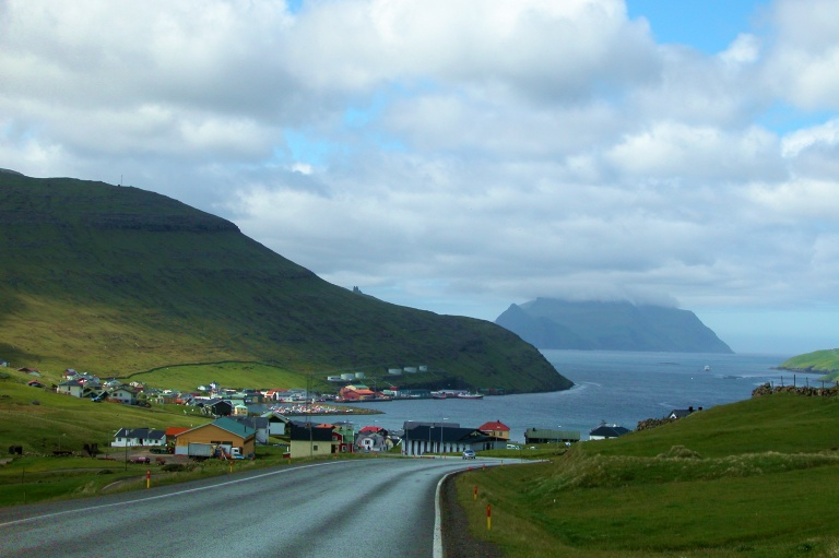 Sørvágur on the island of Vágar, Faroe Islands. View on the island of Mykines in the background.